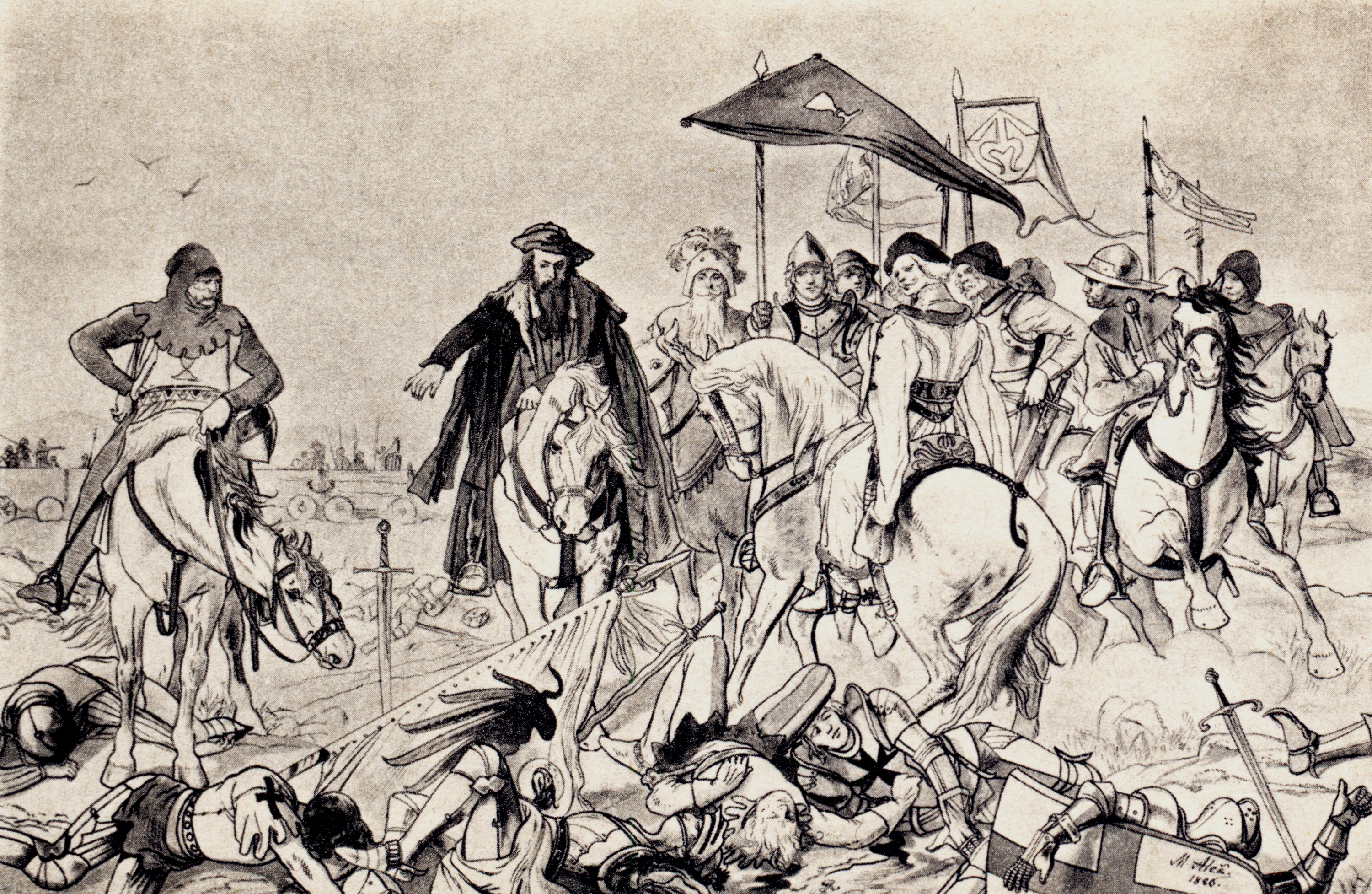 After the Battle of Aussig.